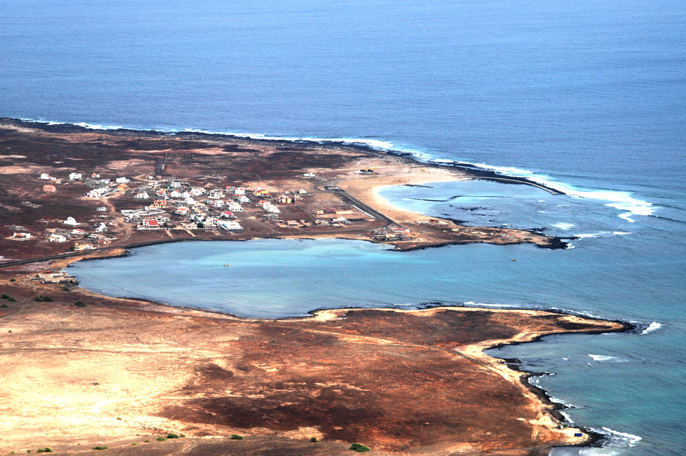 Sao Vicente Island, Cape Verde. The village of Baias das Gatas where a huge music festival takes place in August. Photograph by Henryk Kotowski